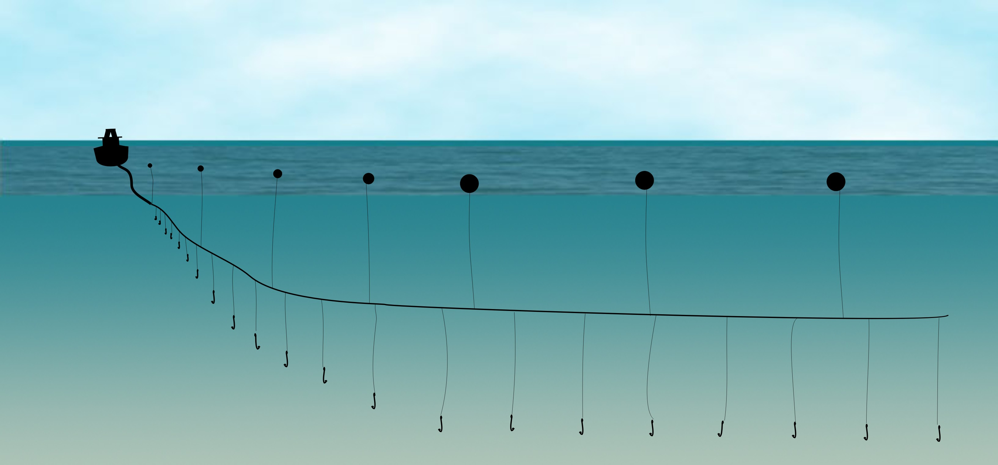 drawing fishing technique longline fishing